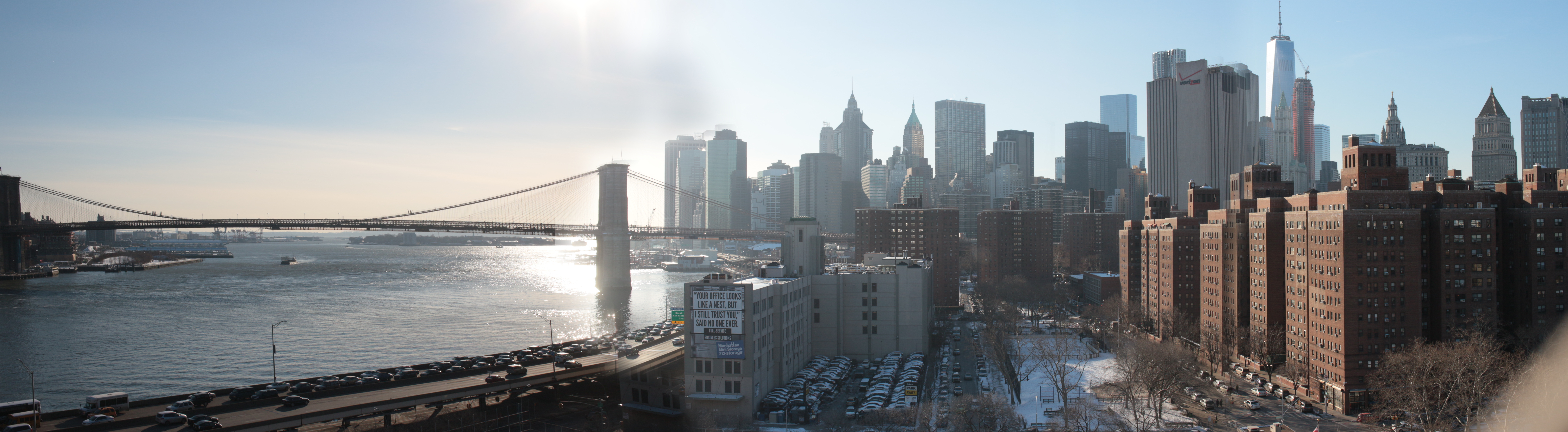 Brooklyn Bridge with Lower Manhattan, February 2015.